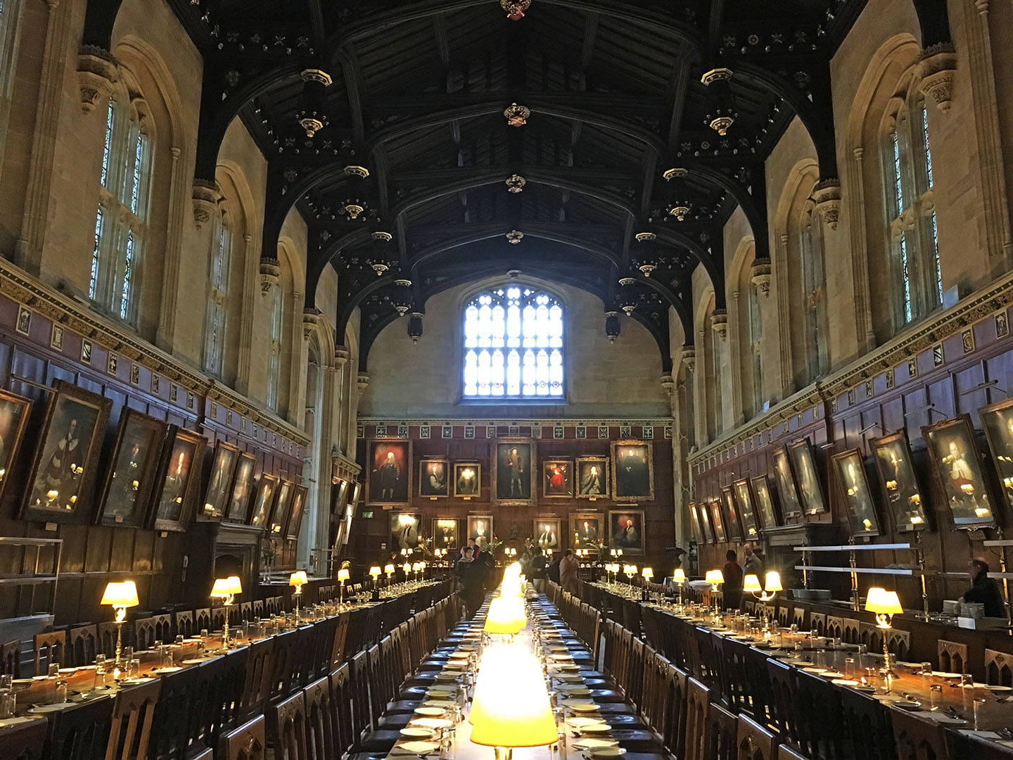 The Hall of Christ Church, Oxford